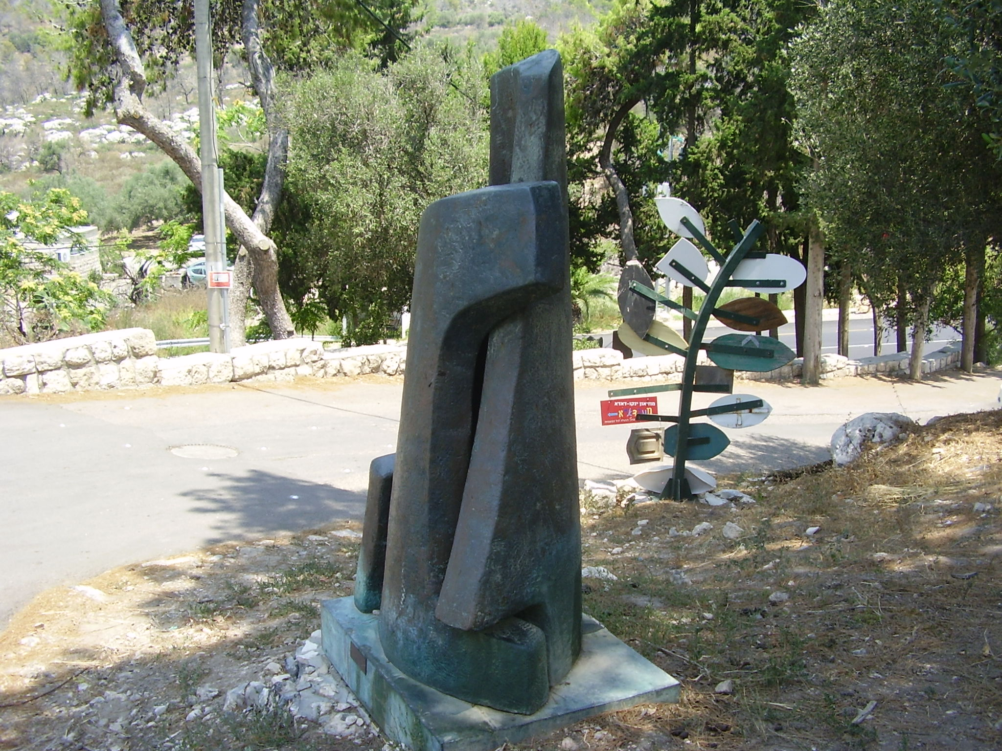 The sculpture \"hug\" in Ein Hod